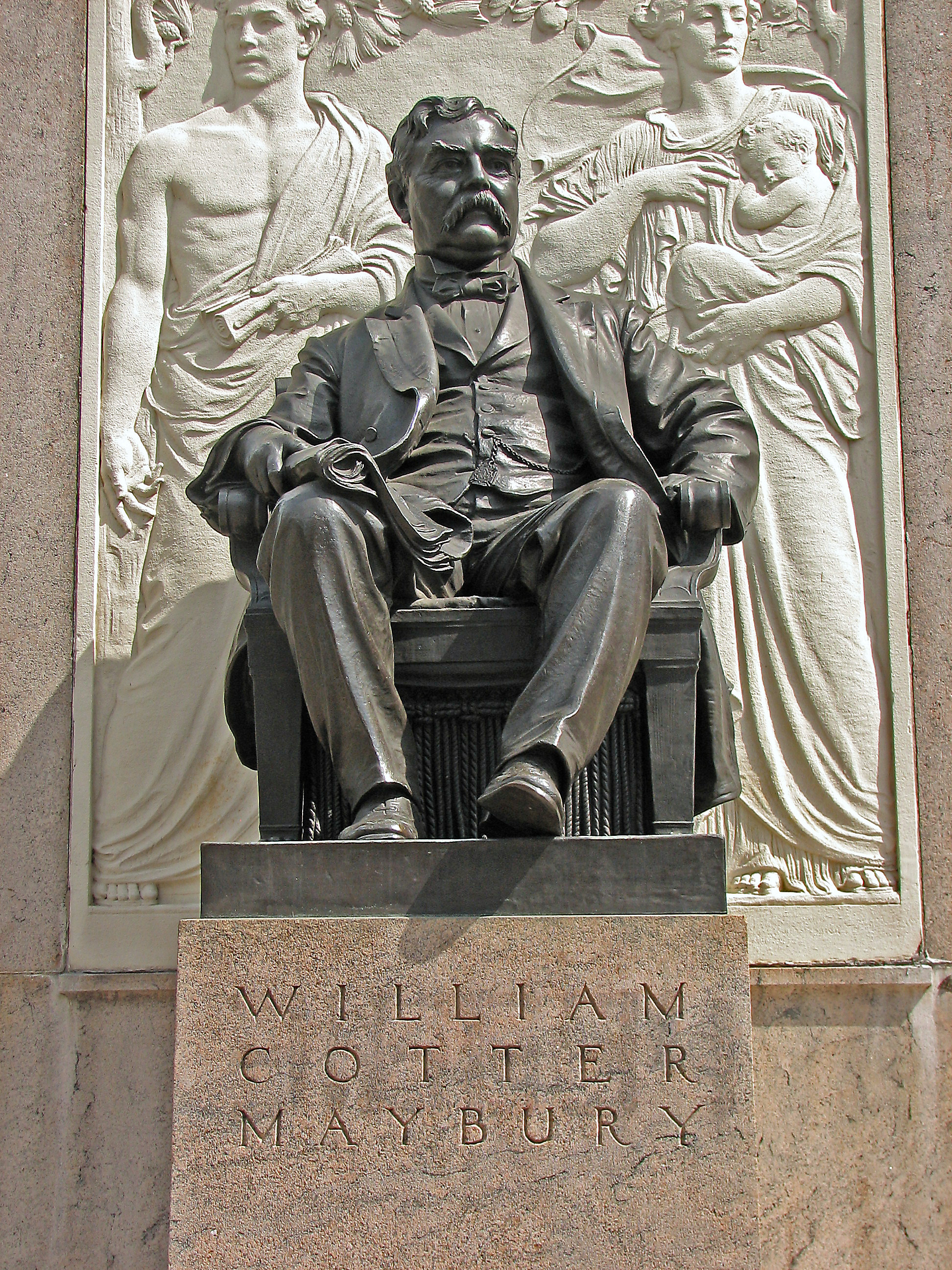 Statue in Grand Circus Park of William C. Maybury (1848-1909), Mayor of Detroit, Michigan (1897-1905). Statue by Adolph Alexander Weinman (1870-1952). Statue commissioned in 1909 by the City of Detroit for $22,000. Completed April 2, 1912. Unveiled to public November 24, 1912.[1] Statue is, therefore, in the public domain.[2]